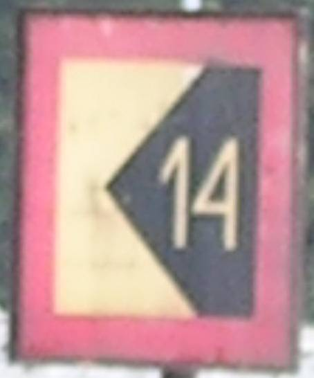 Prague, the Czech Republic. Ship transport sign.